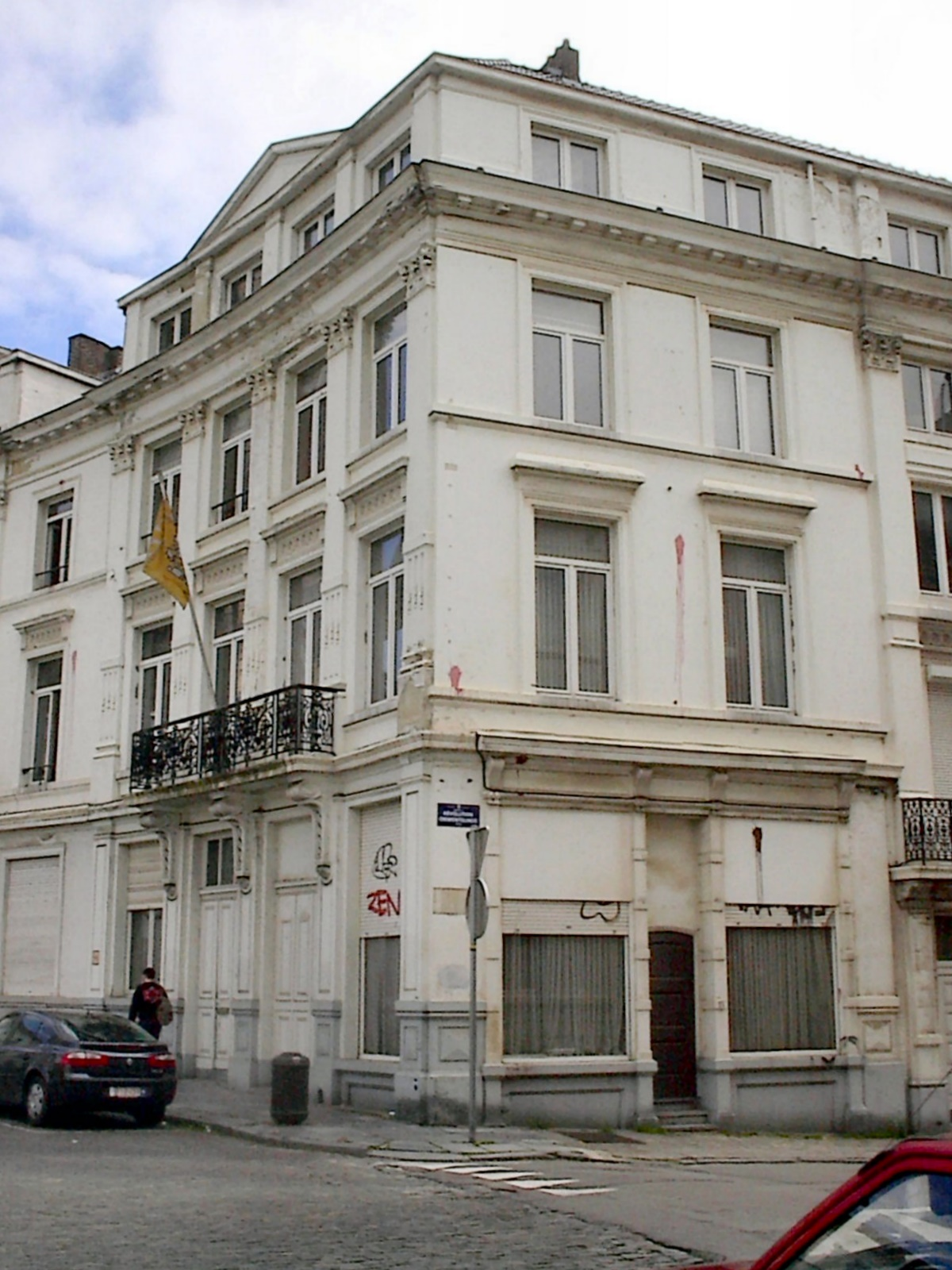 Painters Studio on the 3rd floor (under the roof) of 11, Barrikadeplein in Brussels (Sint-Joost-Ten-Noode). His entry was on the sqaure, while the erntry of his favorite pub was around the corner (shop with 2 windows) in the Rue de la Révolution. He was well befriended with the female owner of the pub.